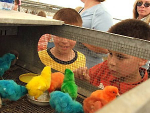 Florida AITC - Rainbow Chicks and Students